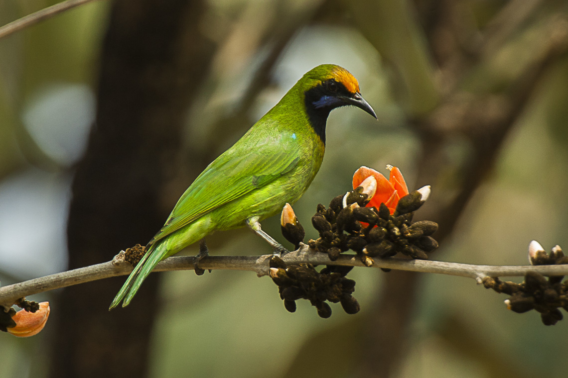 Golden-fronted Leafbird - Bandavhgarh - India_8120